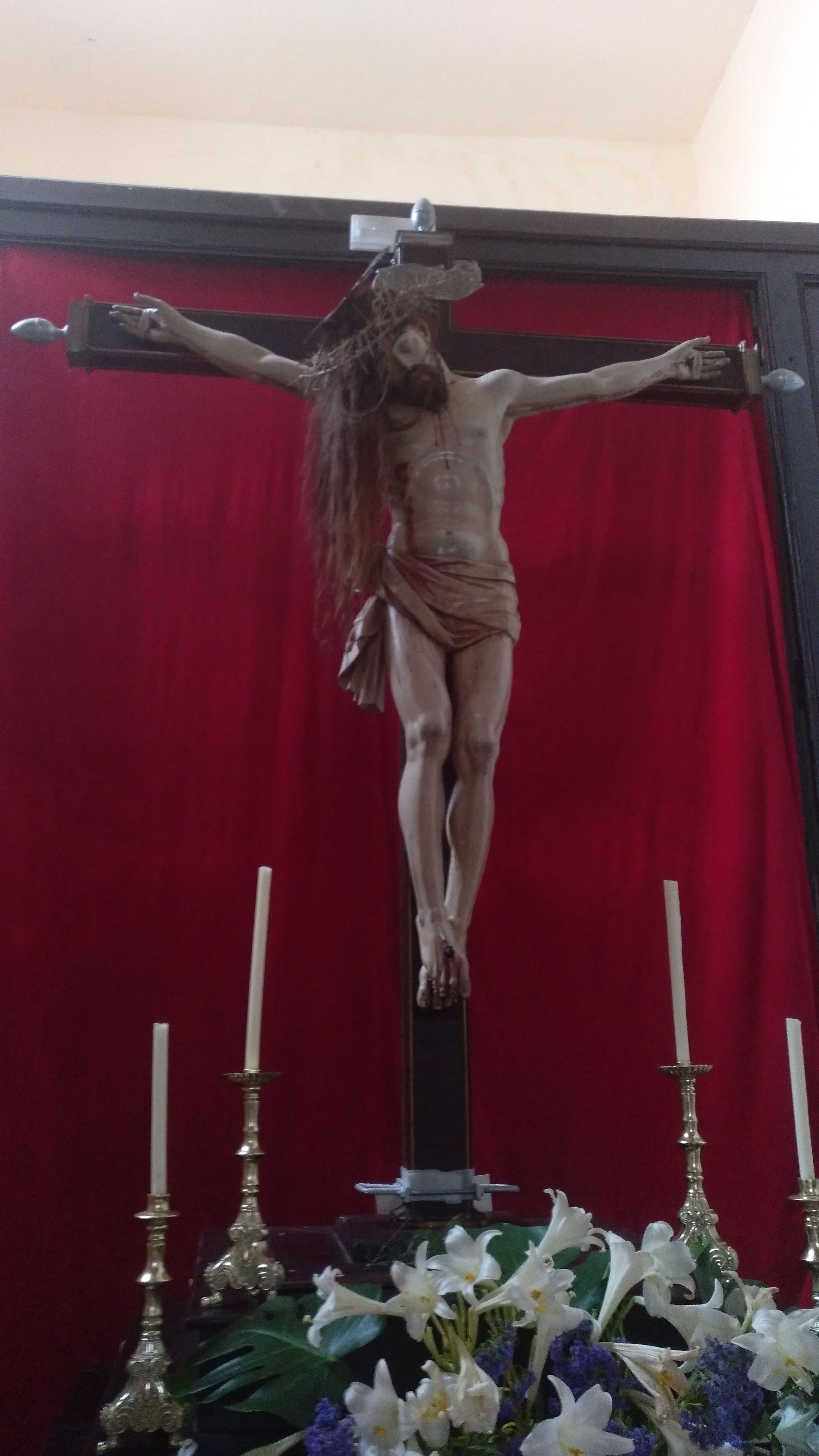 Venerated image of the Christ of the True Cross in the Mother Parish of Our Lady of Guadalupe.